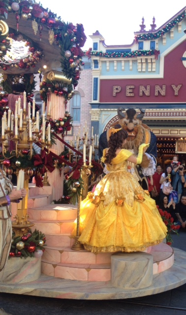 Beauty and the Beast in the Christmas Ball unit of "A Christmas Fantasy" Parade at Disneyland